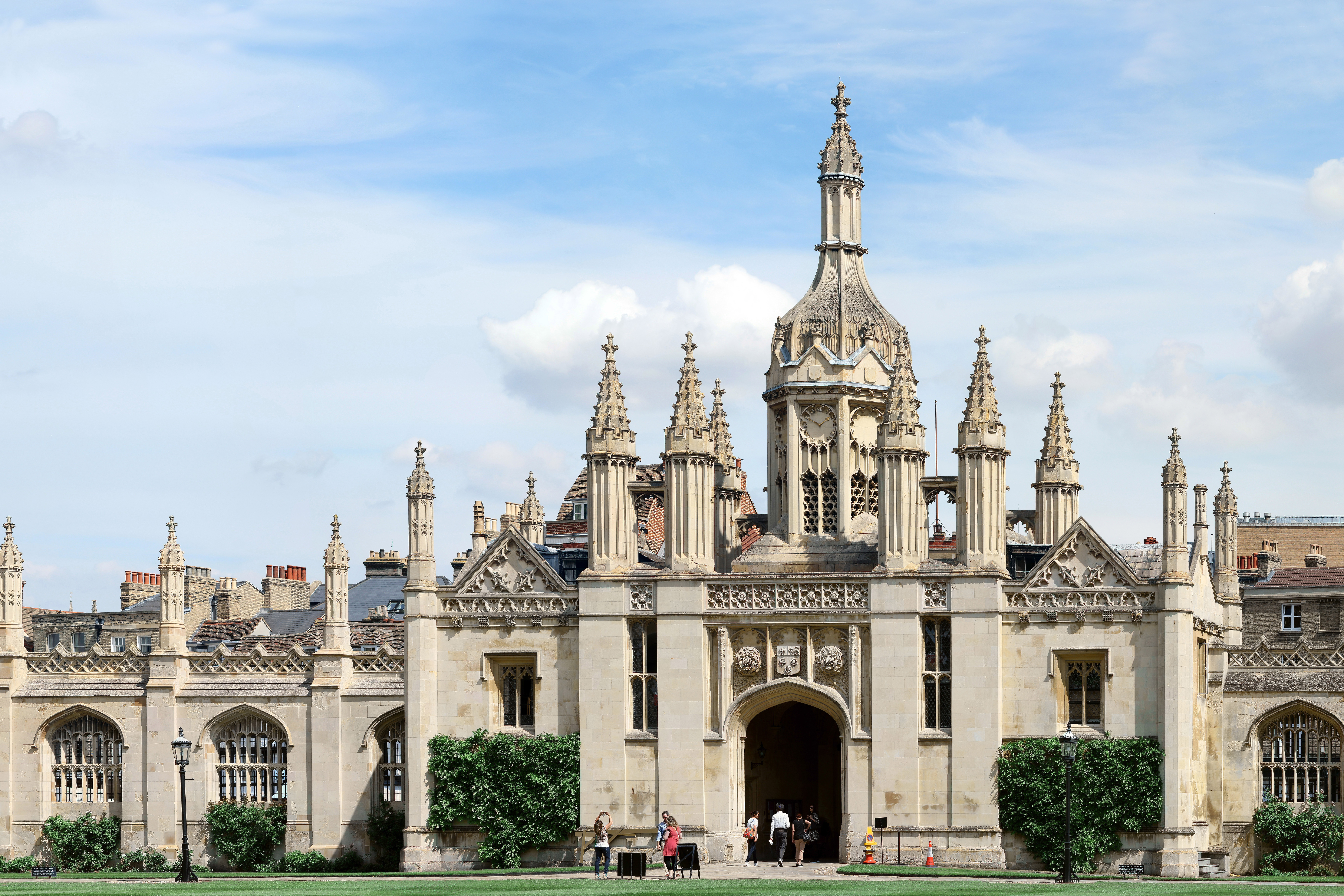 Entrance to King's College, Cambridge. View from fron court. A high-resolution image (54 megapixels). Technical: stitched out of 29 shots (each 15 mpix), then reduced resolution for sharpness.